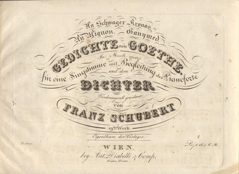 Edition 1825 An Schwager Kronos. An Mignon. Ganymed. 19tes Werk.